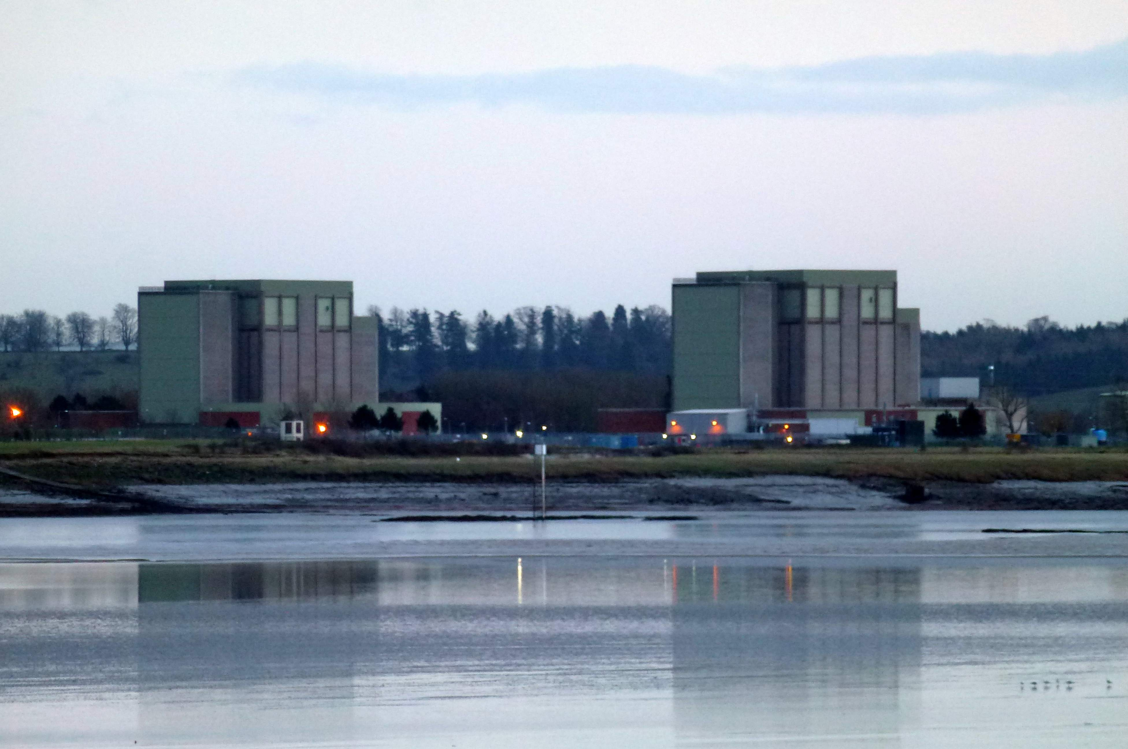 Photographed from the far side of the River Severn